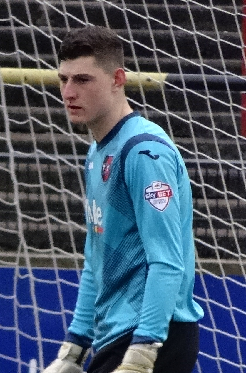 James Hamon playing for Exeter City against York City at Bootham Crescent, York on 28 February 2015